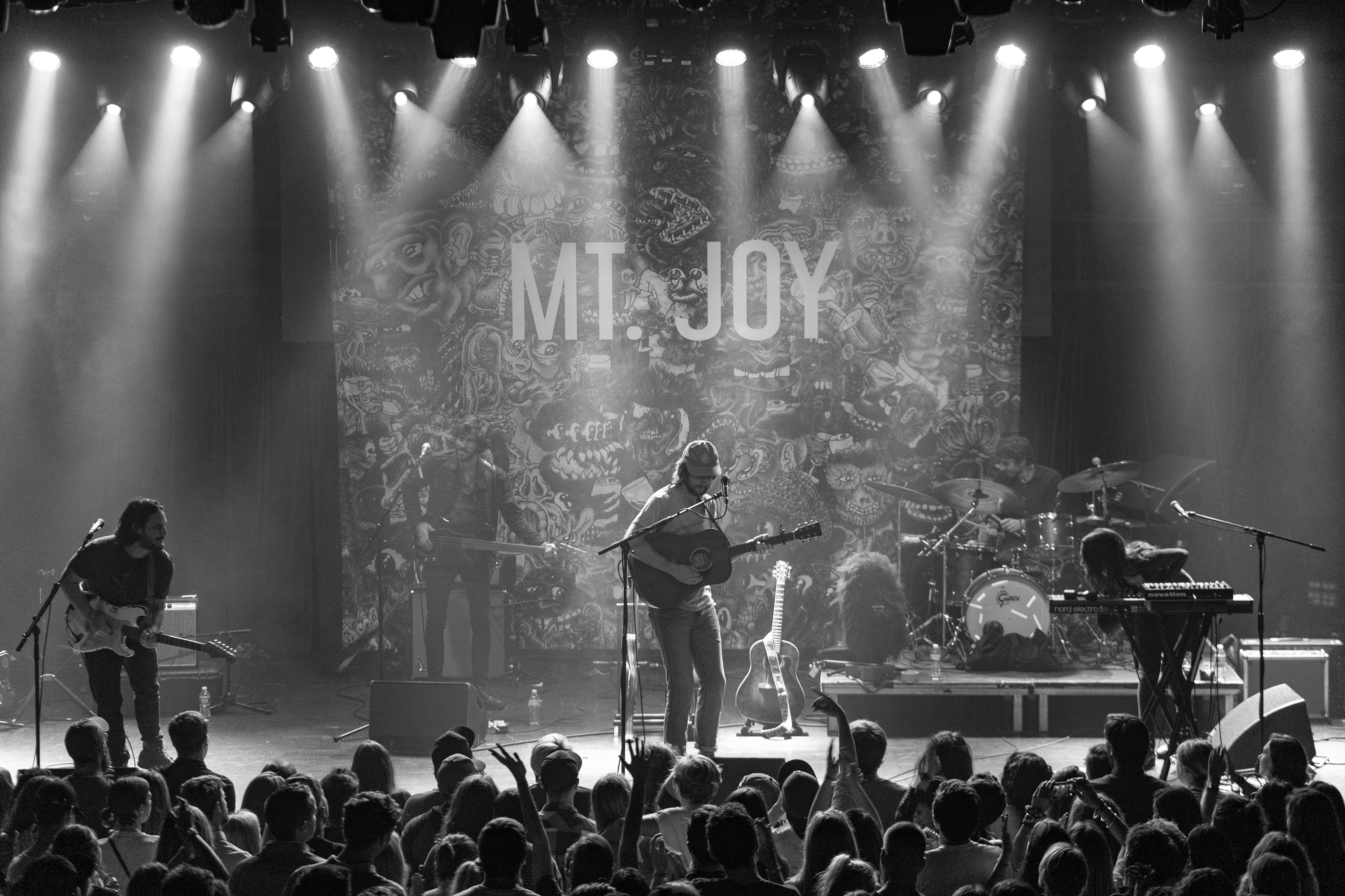 MtJoyRoyaleBoston20180926